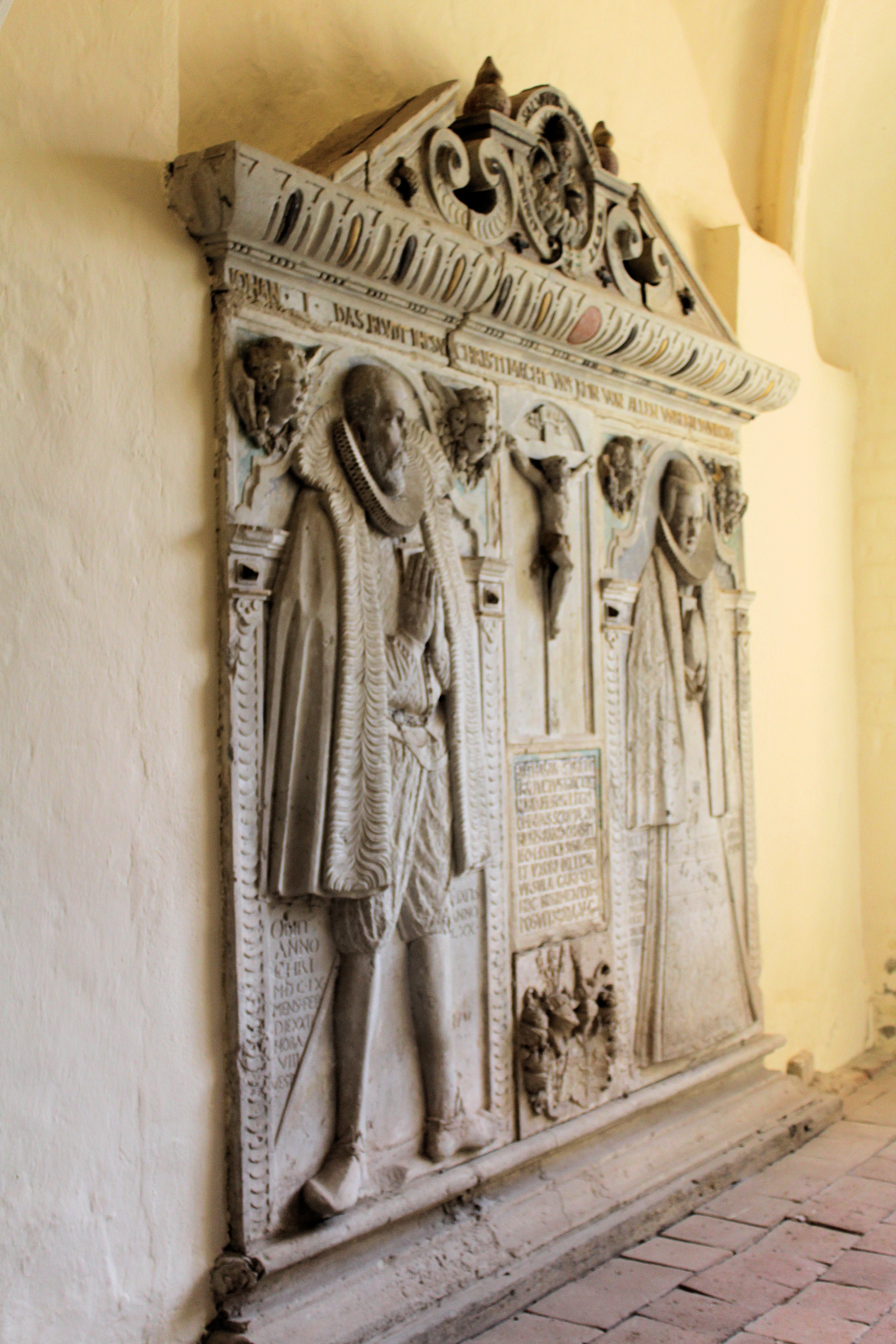 Arendsee, the monastery church St. Mary, epitaph